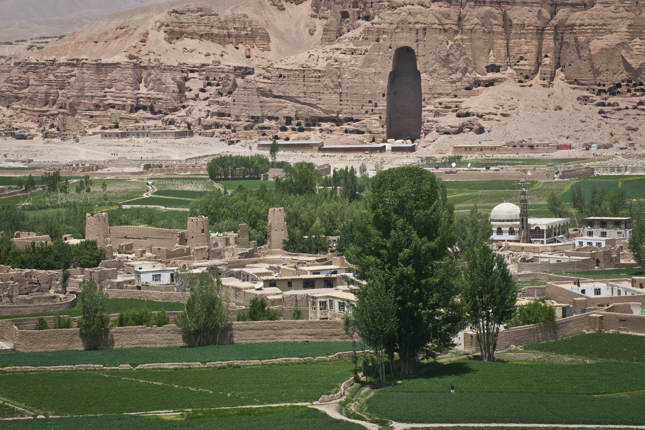 The cavity where the largest of the Buddha’s of Bamiyan statues, known to locals as the "Father Buddha," used to stand towers above the Bamyan valley, June 16, 2012. The monumental statues were built in A.D. 507 and 554 and were the largest statues of standing Buddha on Earth until the Taliban dynamited them in 2001. (Photo ID: 607650)